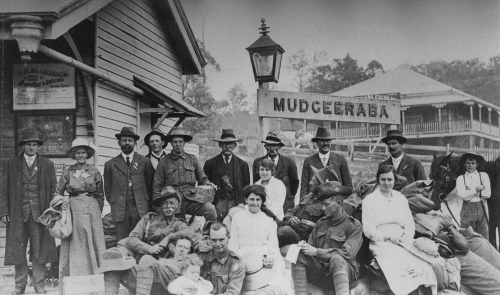 People posing at the railway station in Mudgeeraba, ca. 1917 There are some soldiers in the group of people.